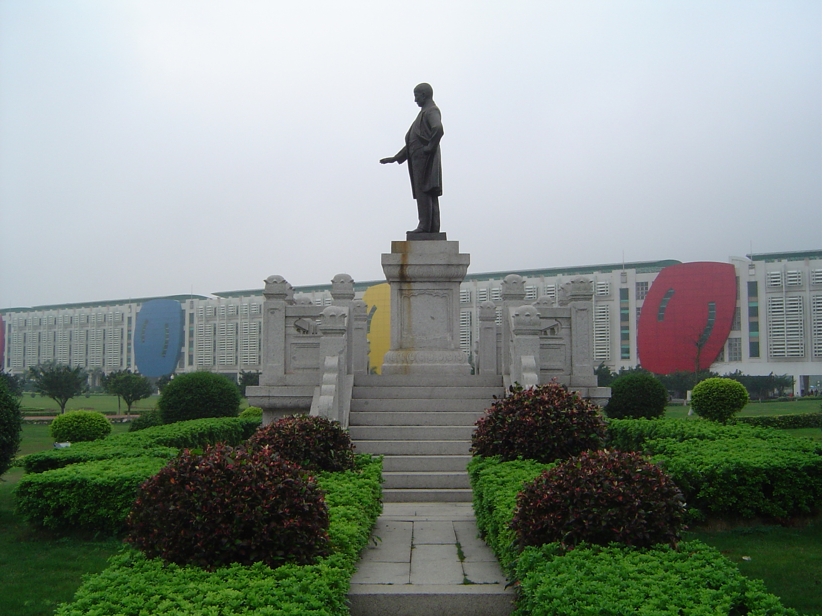 statue of Sun Yat-sen in the Zhuhai Campus of Sun Yat-sen University (中山大学) in Zhuhai), PR China